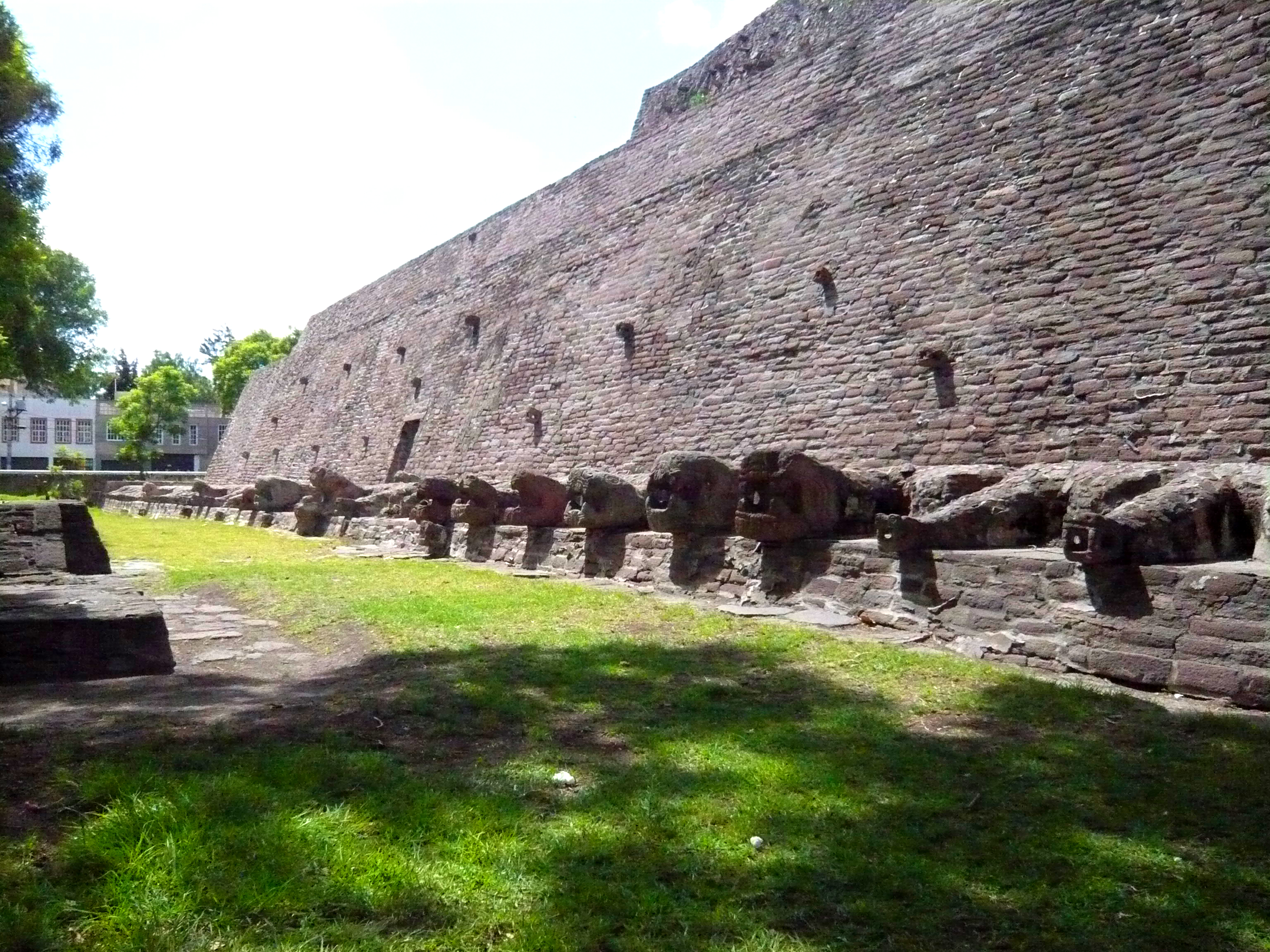 The base of the Aztec pyramid of Tenayuca - adorned with a row of rattlesnake scupltures. Called a coatecpantli in nahuatl.